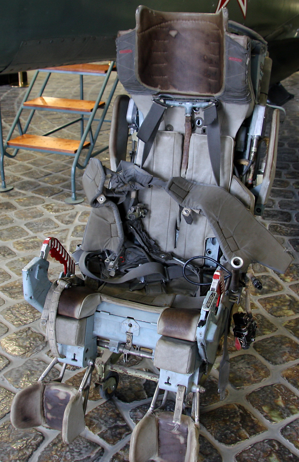 Yakovlev KYa-1M ejection seat at Museum of technique of Vadim Zadorogny